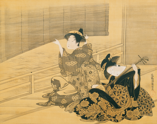 Courtesan Playing the Samisen, Japan, Edo period, Hanging scroll